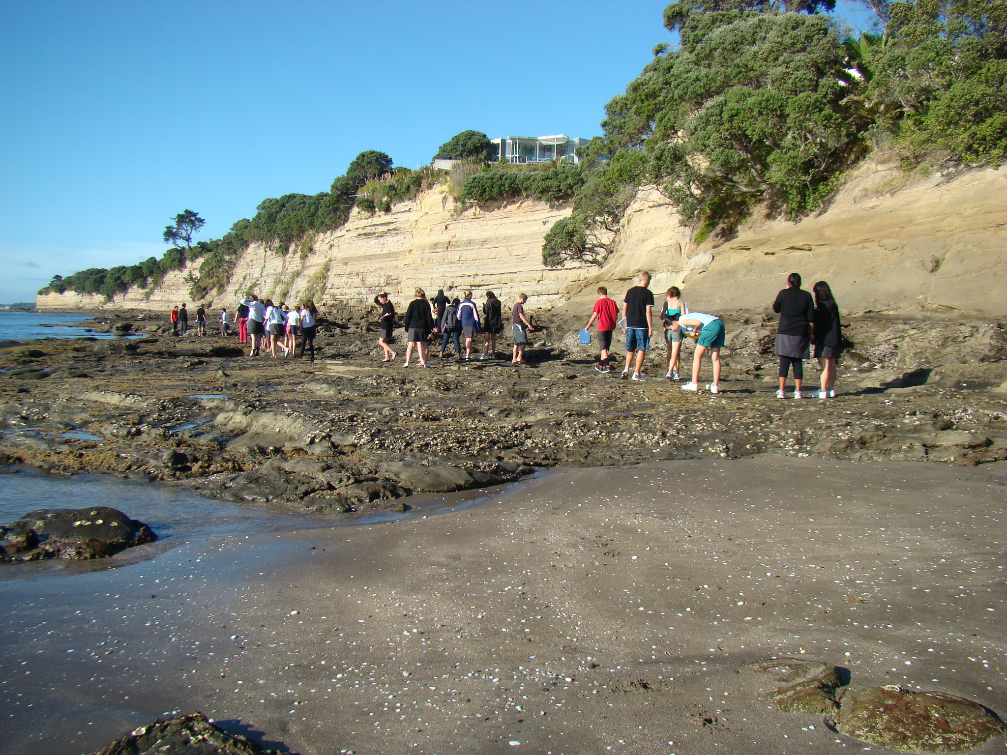 Year 12 Biology field trip to Waiake Beach Torbay Auckland